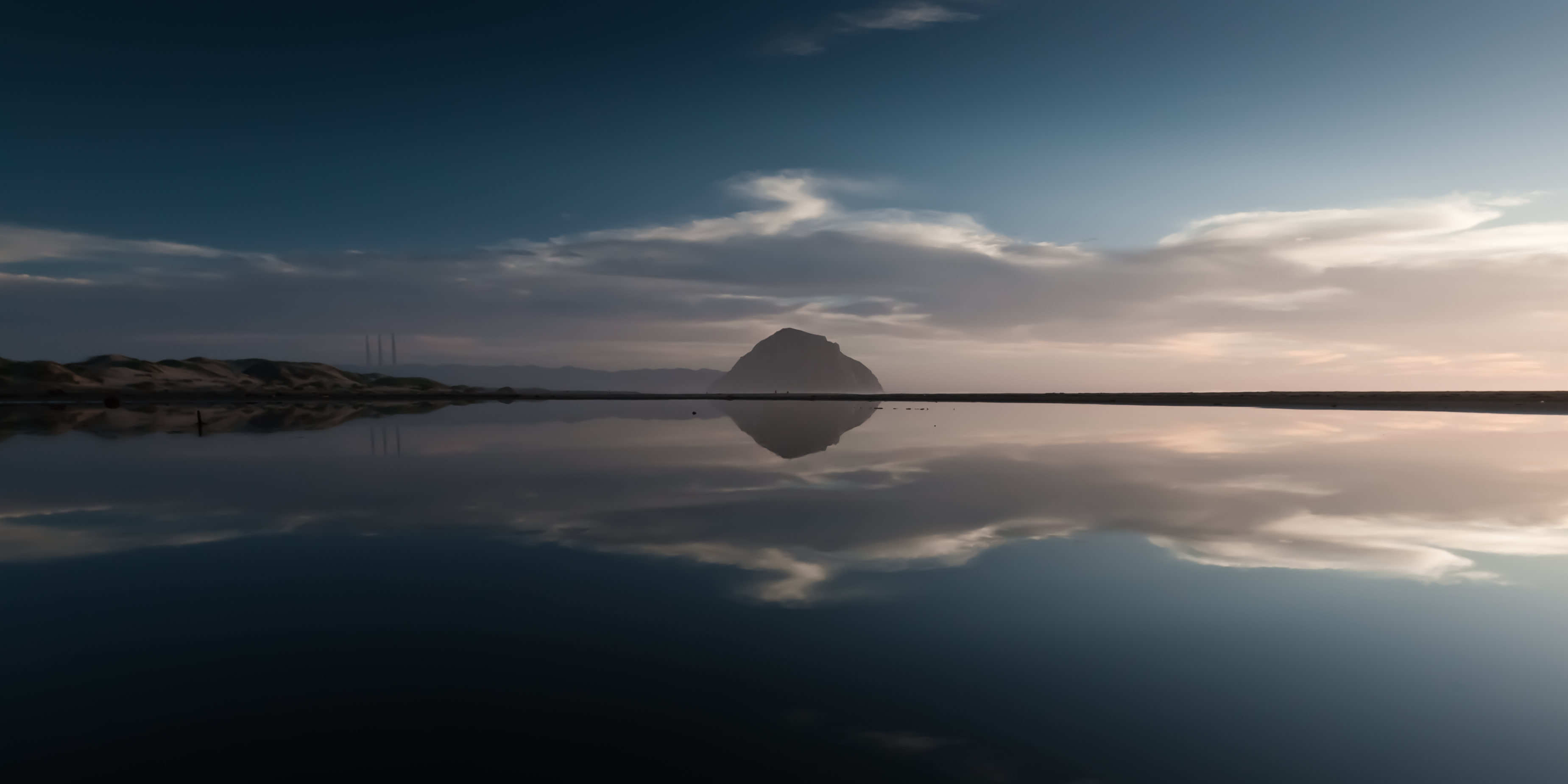 Waterscape. Morro Rock Reflecting in a Lagoon. Morro Strand State Beach with Morro Rock, in Morro Bay, CA, reflecting in a lagoon left over from a 5’ high tide, taken at sunset during a 0.5’ low tide on a wide flat wet sand beach, 23 Jan 2011. Looking SOuth. Ultra High tide "King Tide" reaches sand dunes edge. Photo © 2011 “Mike” Michael L. Baird, mike {at] mikebaird d o t com, , shooting a Canon EOS 1D Mark III 10.1MP Digital SLR Camera, Canon EF 16-35mm f/2.8L II USM Ultra Wide Angle Zoom Lens w/ circular polarizer, handheld, RAW. To use this photo, see access, attribution, and commenting recommendations at - Please add comments/notes/tags to add to or correct information, identification, etc. Please, no comments or invites with badges, images, multiple invites, award levels, flashing icons, or award/post rules. Critique welcomed. Howard Ignatius is to be credited for giving me the idea for this exact location - see his image at Q&A: WOW, the lagoon got a lot bigger!" A: Howard, Maybe not. I saw some details in your photo that indicated I was in the same lagoon, but it seemed so small and colorless that I almost walked by. But by holding the camera so that the base actually touched the surface of the water, and walking around to find the best position, I was able to create an illusion of greater size... seems you must have done much the same? Thanks again for the suggestion. Flickr works in many ways.